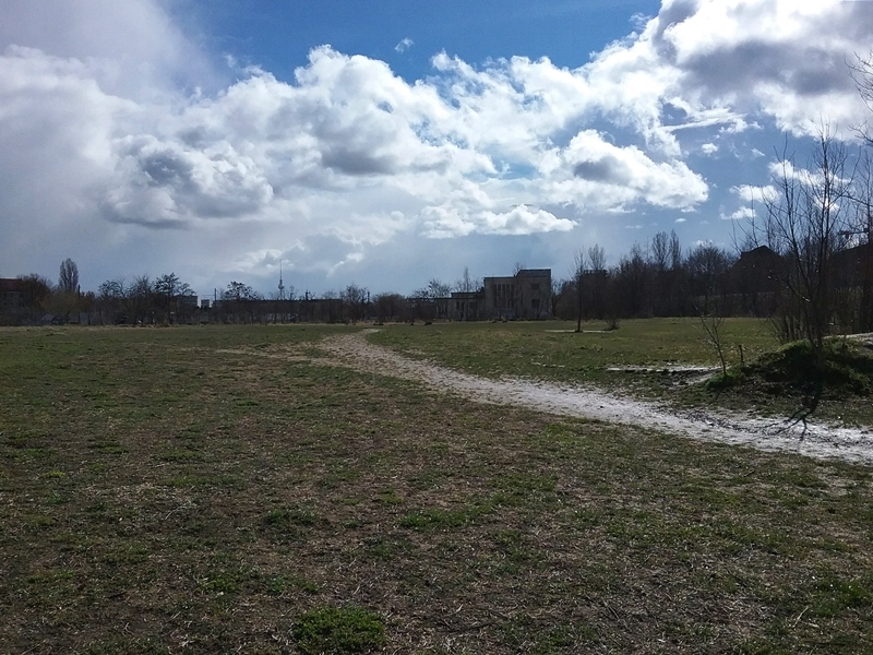 The Nasse Dreieck is a large, wild green area in the Berlin district of Pankow.